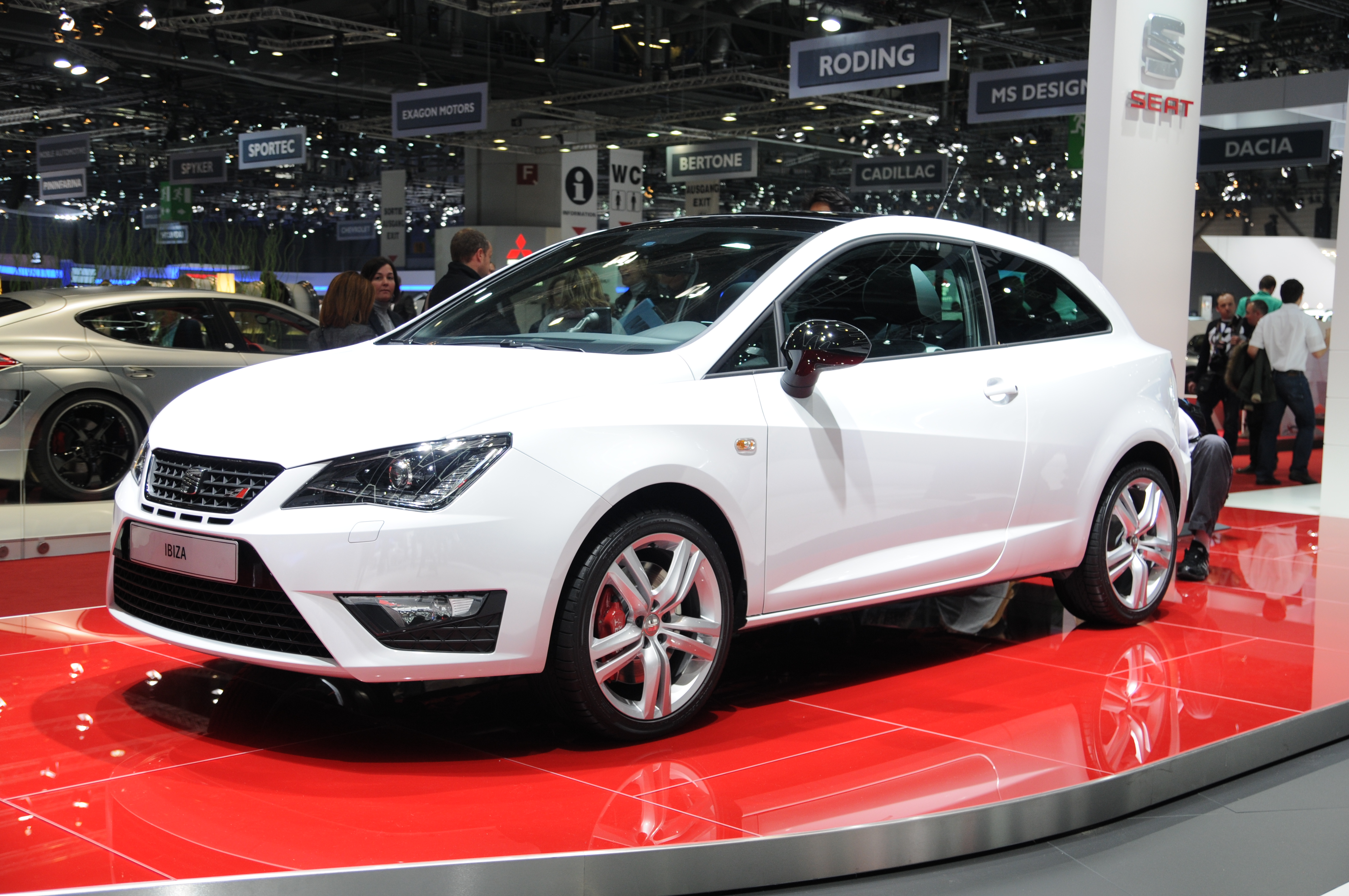 Geneva Motor Show 2013 (photos taken on the first press day)